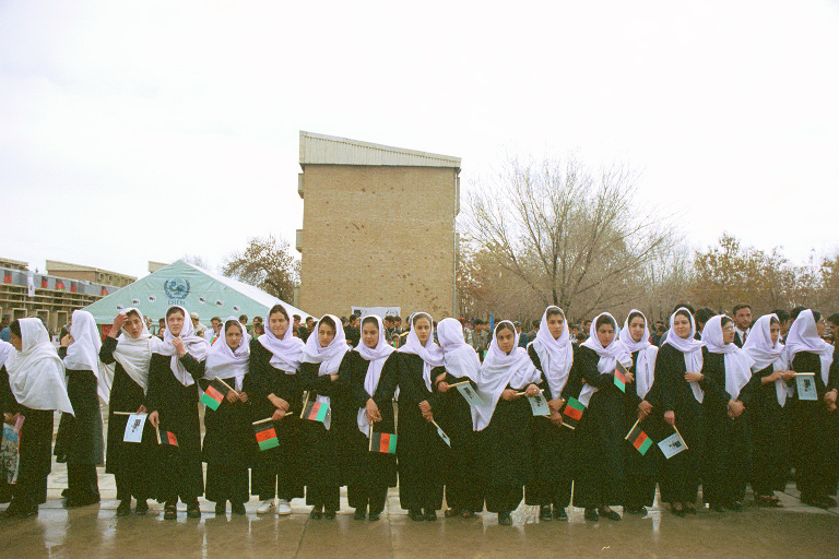 Female school students of Afghanistan in 2002.